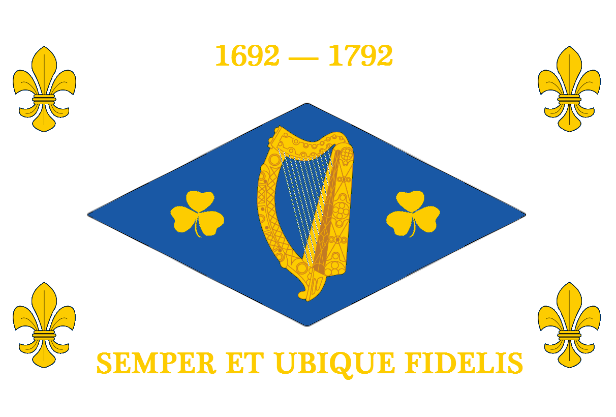 Irish Farewell Banner - Drapeau d' Adieu. Information about the flag can be found here. Presented by the Comte de Provence, brother of Louis XVI, in 1792 to those officers of the Irish Brigade that had followed the Bourbon princes into exile. Replica of the drapeau was presented by the Benedictine nuns of Ypres to the 16th Irish Division some time in 1914. The replica was later given by Major-General Sir William Hickie, the GOC of the division, to his nephew Captain Rickard Deasy (late Artillery Corps, Irish Army) who presented it to the Artillery School, Curragh Camp, Co. Kildare, where it is now. The whereabouts of the replica Farewell Banner had been forgotten until Swiss-Irish historian Thomas Raymann-Walsh researched different leads for two years and was able to reestablish its location in 2001.